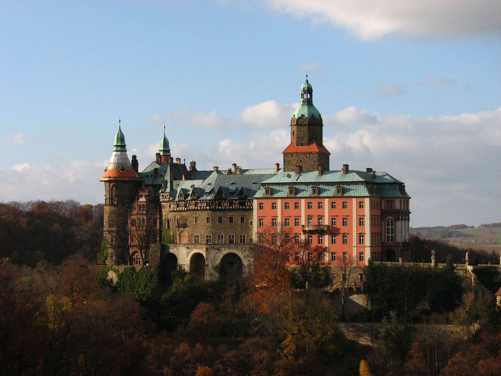 Książ Castle